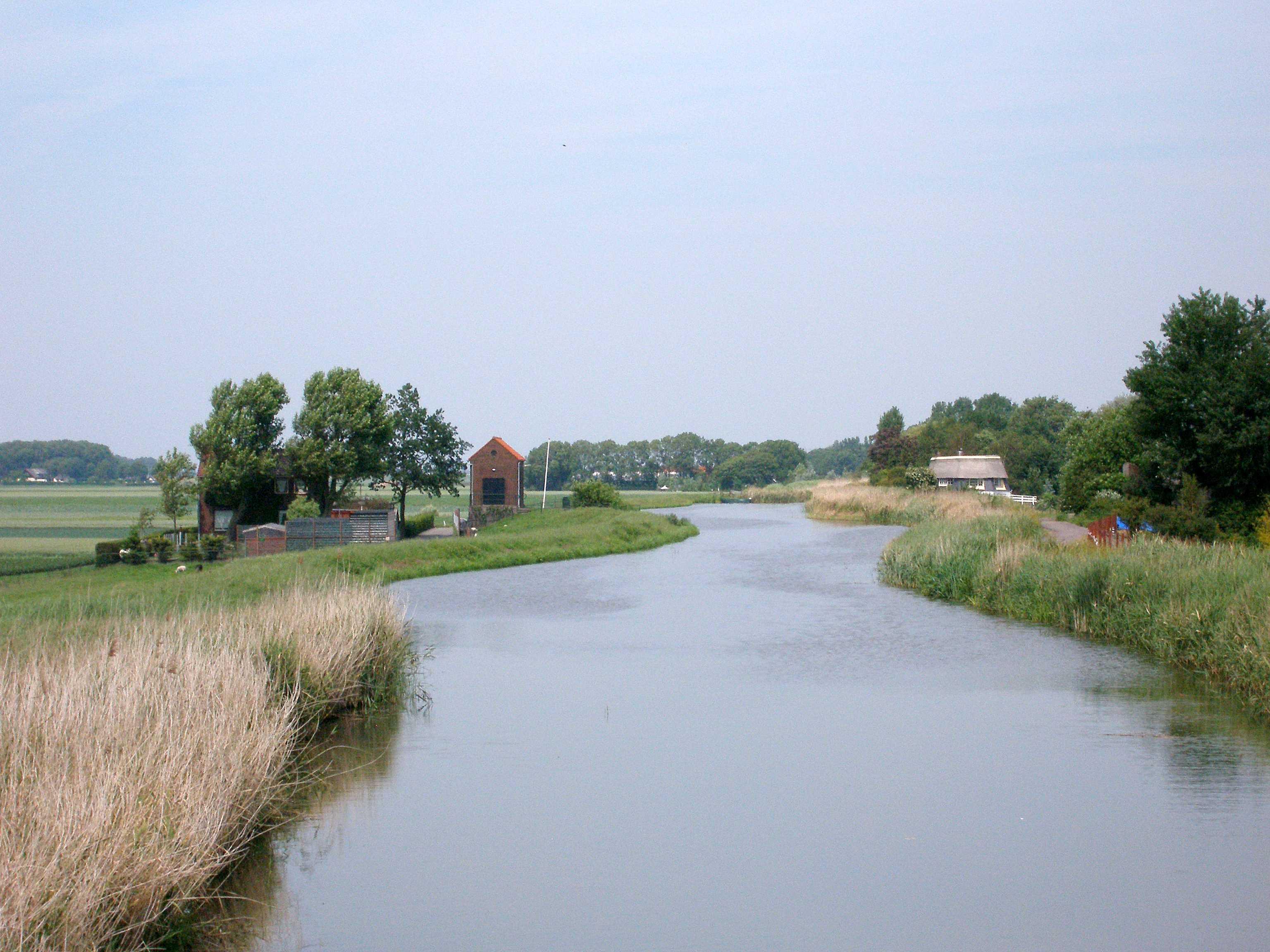 The first part of the river Rotte near Moerkapelle